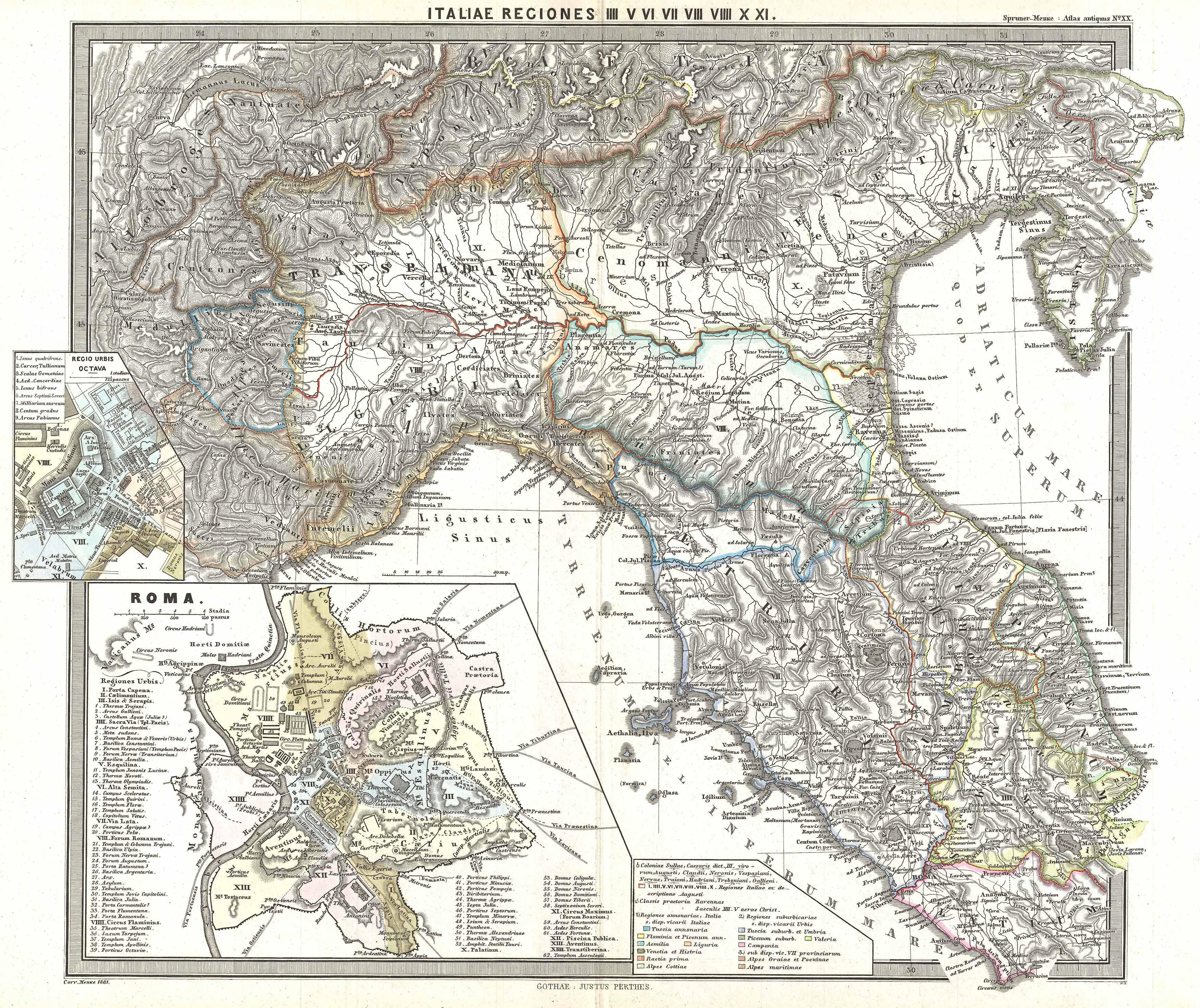 A particularly interesting map, this is Karl von Spruner’s 1865 rendering of Northern Italy and Rome in antiquity. This map covers northern Italy from modern day Venetia south as far as Rome and west to modern day Piedmont. Like most of Spruner’s work this example overlays ancient political geographies on relatively contemporary physical geographies, thus identifying the sites of forgotten towns and villages, the movements of armies, and the disposition of lands in the region. This particular example includes ancient names for many important regions and sites. Additionally, two inset maps are offered in the lower left quadrant. The larger of the two insets is a city plan of Rome including the ancient city walls and an elaborate key identifying some 62 historic sites. The smaller of the two insets details the Palace of Octavius, “Region Urbis Octava” As a whole the map labels important cities, rivers, mountain ranges and other minor topographical detail. Territories and countries outlined in color. The whole is rendered in finely engraved detail exhibiting the fine craftsmanship for which the Perthes firm is known.